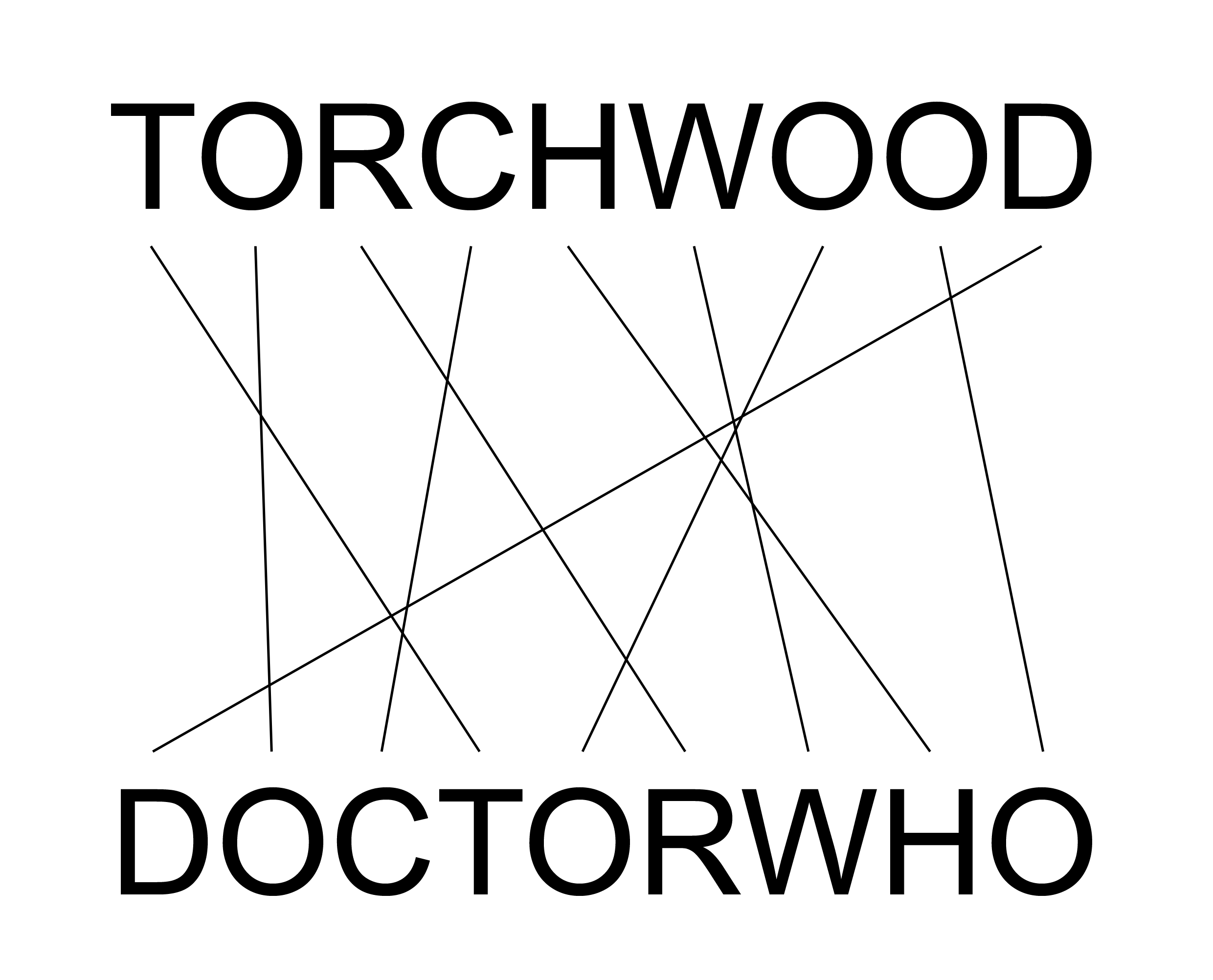 The Torchwood - Doctor Who Anagram